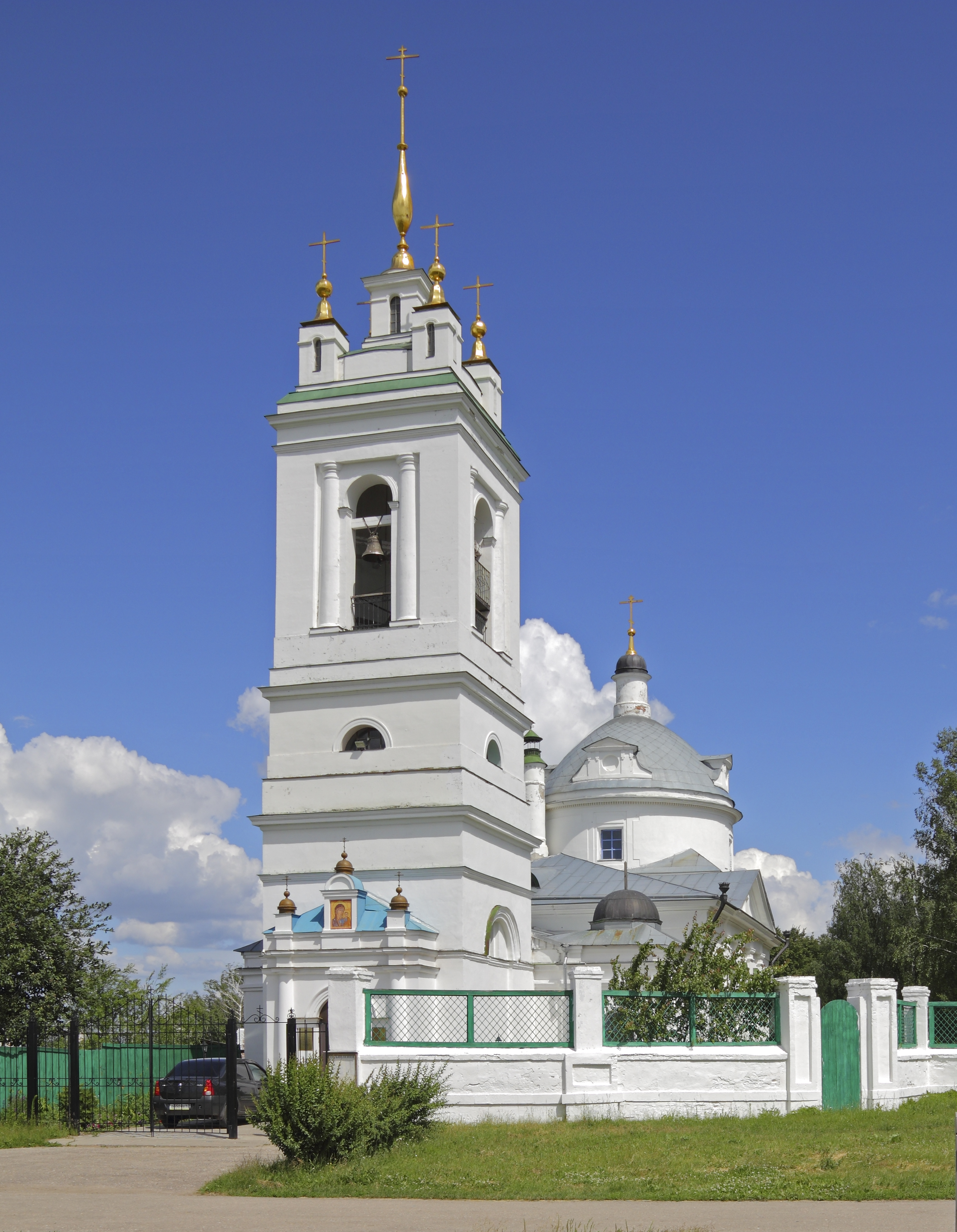 Church of Our Lady of Kazan, Konstantinovo village, Ryazan Oblast, Russia